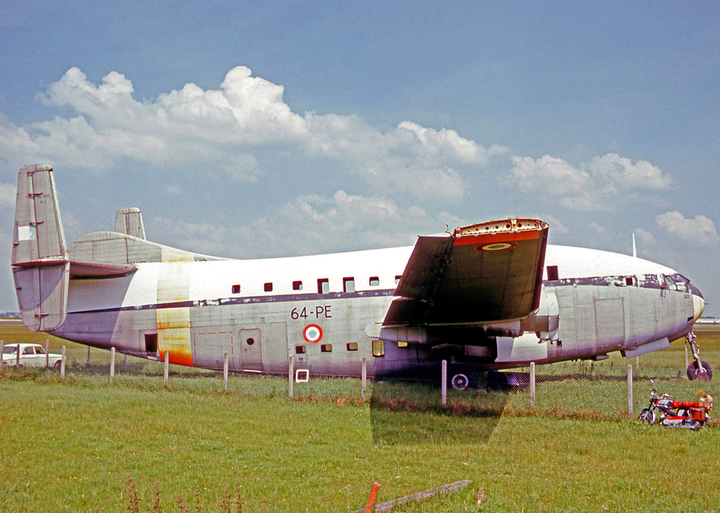 Breuet 765 Sahara No. 501 of the French Air Force